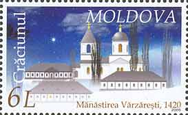 Stamp of Moldova